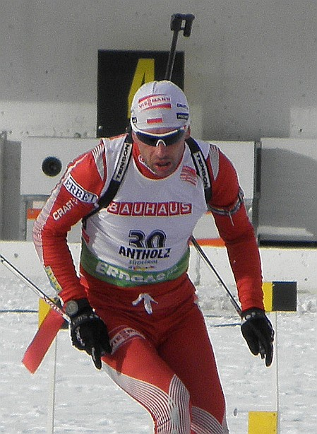 Tomasz Sikora in Antholz, 21-01-2010